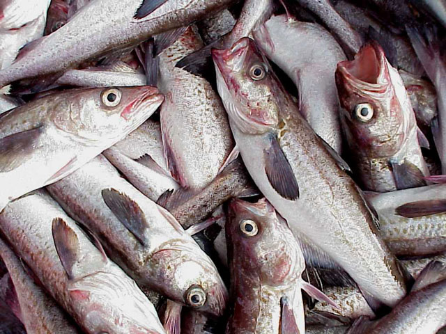 Adult pollock are cannibalistic, and sometimes eat smaller pollock.